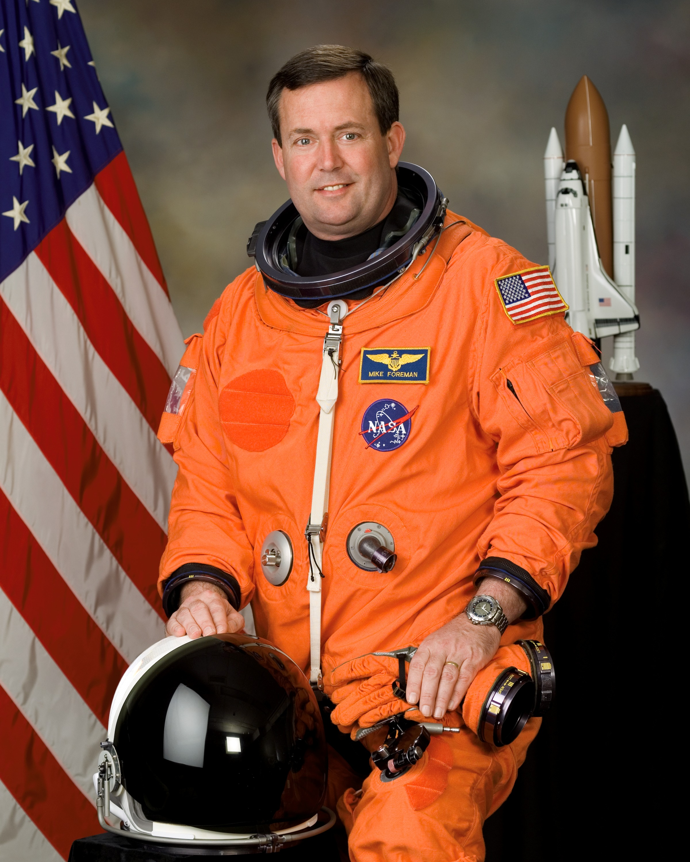 Astronaut Michael J. Foreman